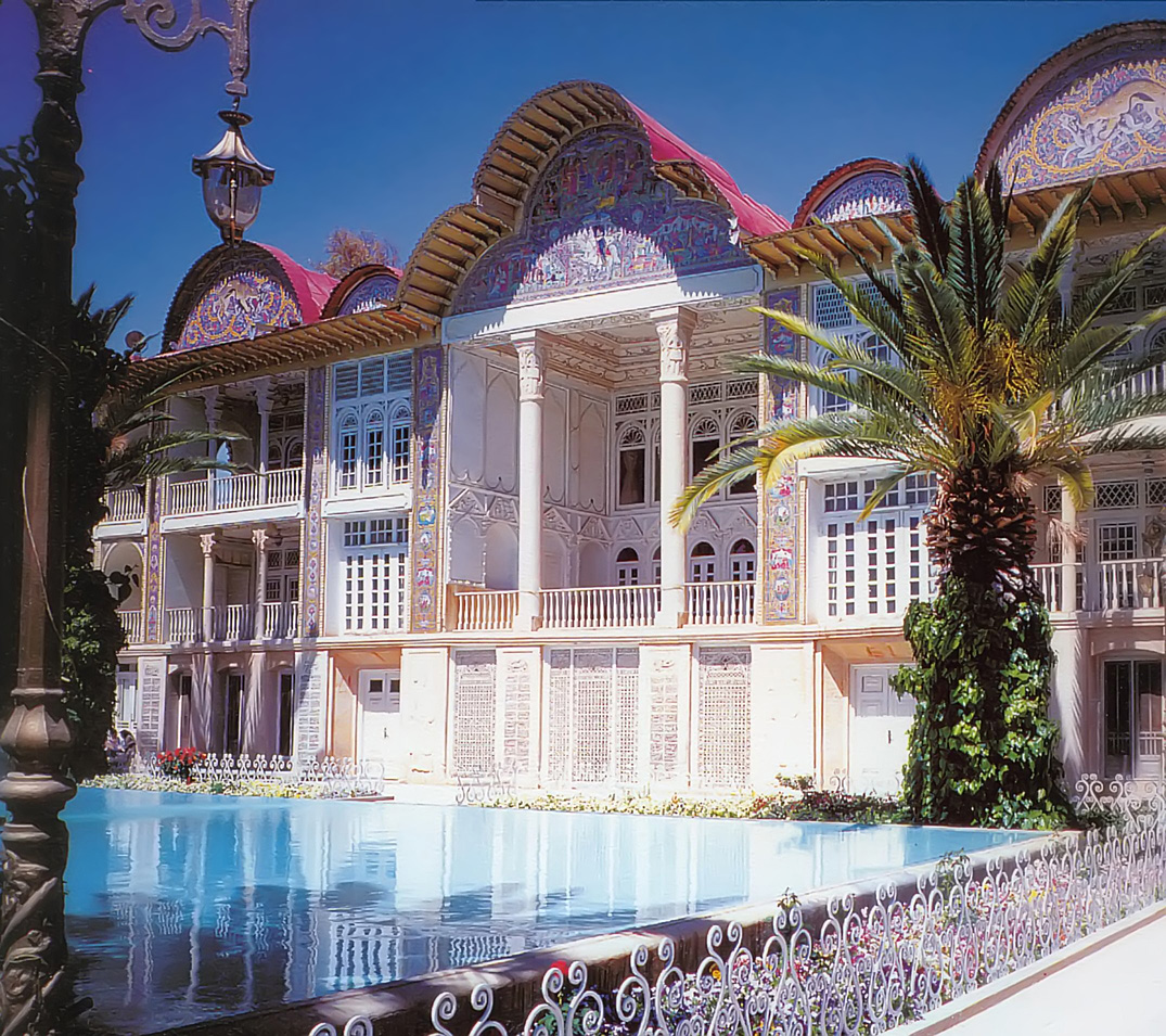 Eram Garden, Shiraz, Iran